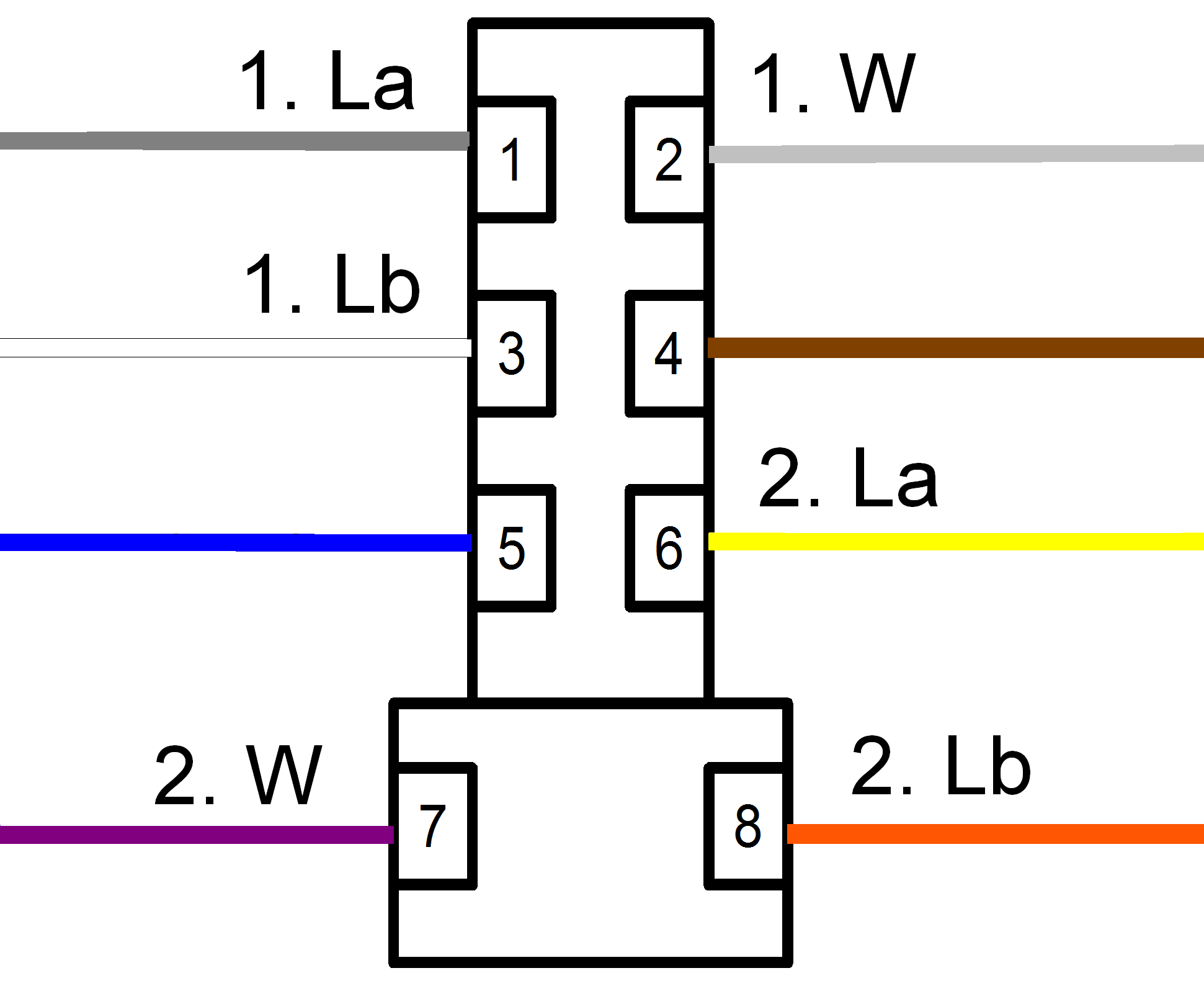 connection scheme in German nomenclatura of old french telephone socket F-010